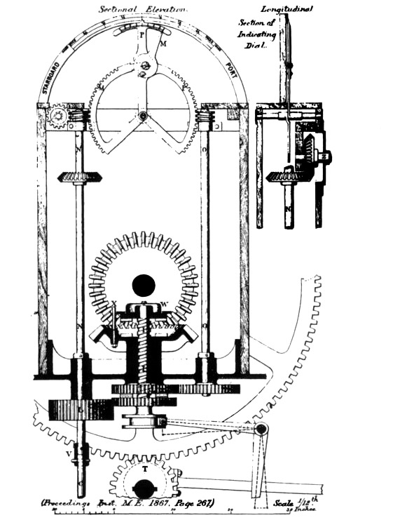 Grey's steering engine design. From Proceedings of the Institute of Mechanical Engineers, 1867.